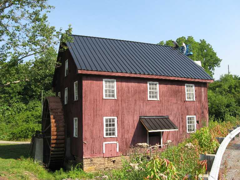 Claude and Peachy finishing the new roof on the McNeel Mill at Mill point, WV. 7/3/08